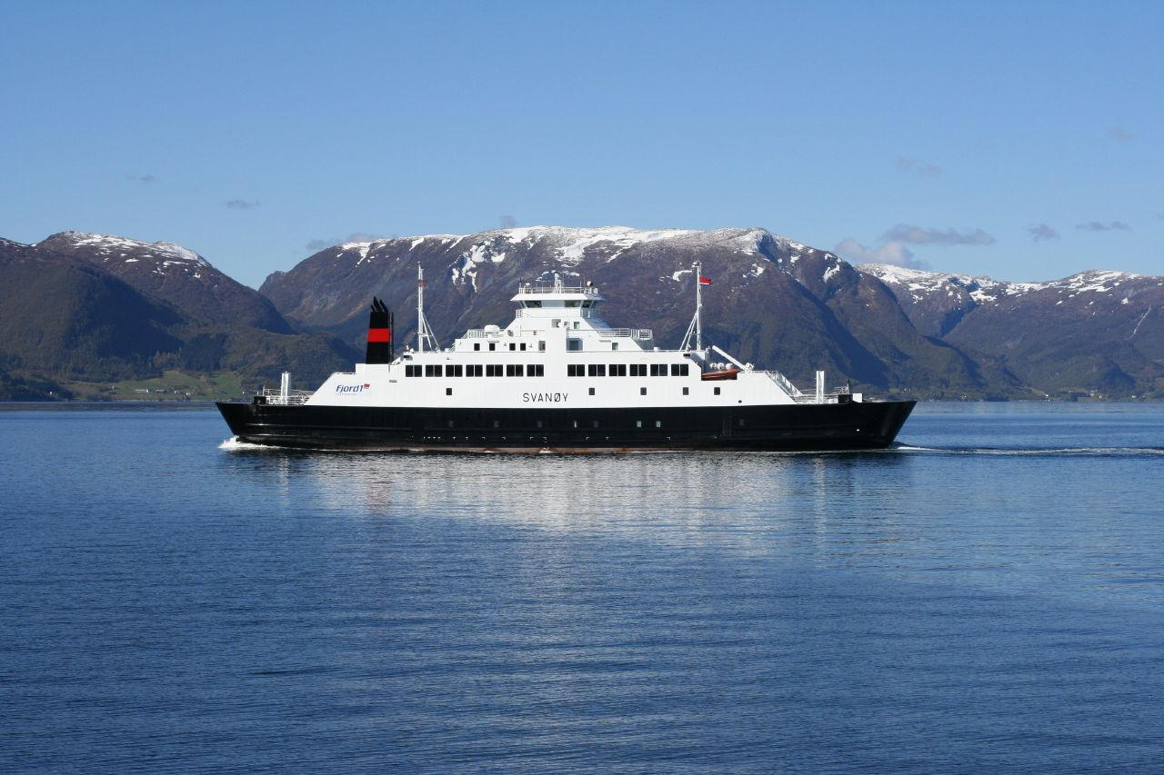 Crossing the Sognefjord